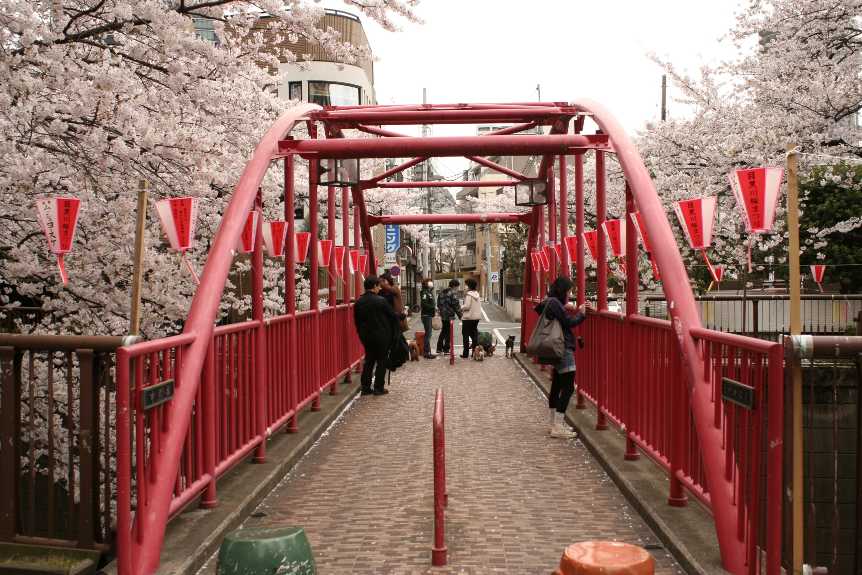 Naka-no-hashi, a bridge over the Meguro River in Aobadai 3-Chōme, Meguro-ku, Tokyo.